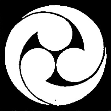 Crest of Arima